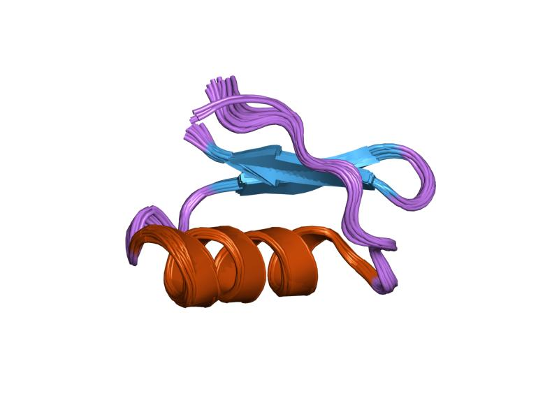 Cartoon representation of the molecular structure of protein registered with 1m2s code.